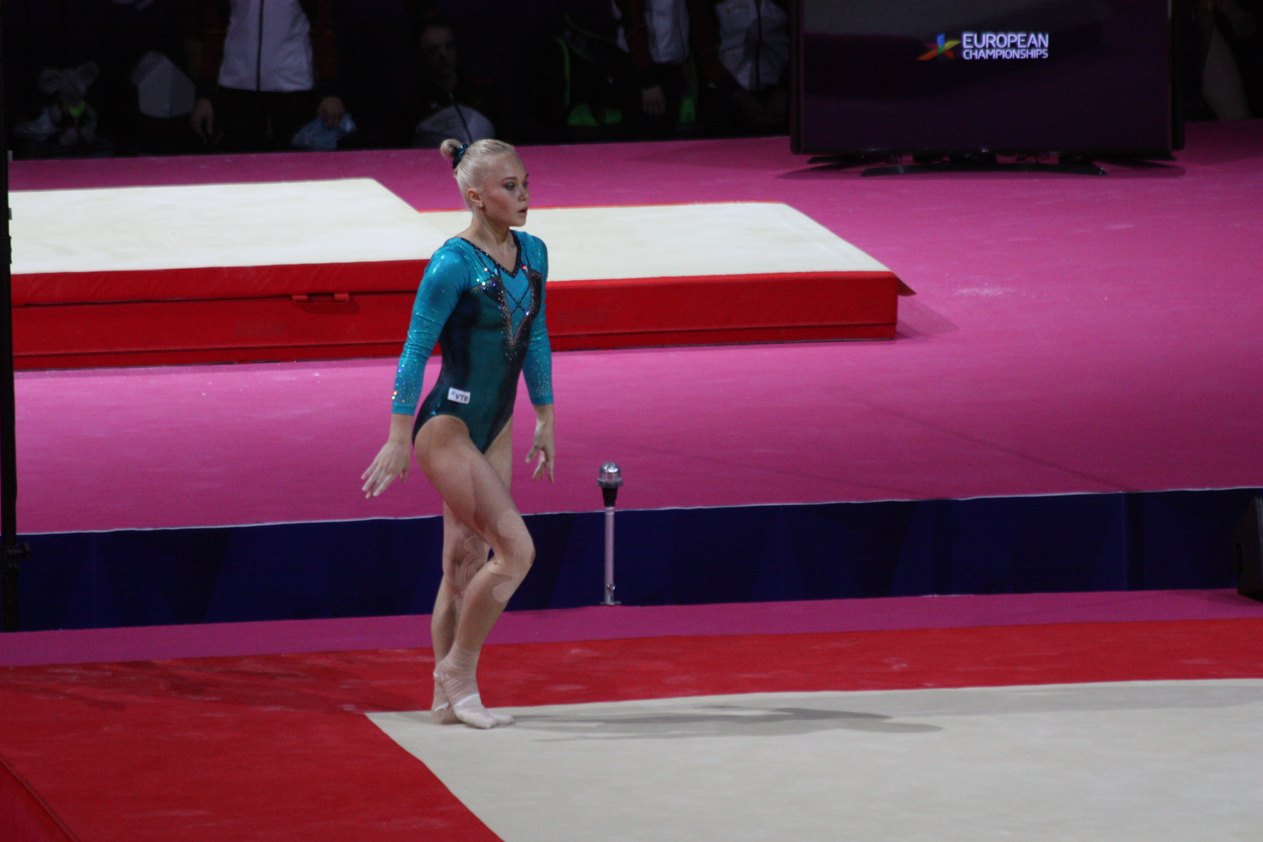 Angelina Melnikova during the qualifications at the European championships in Glasgow in 2018.